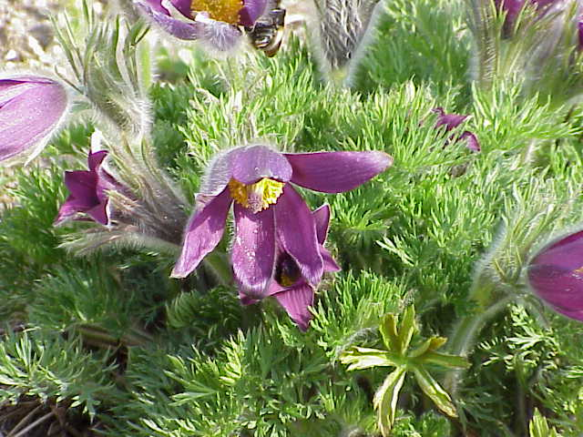 Species: Pulsatilla montana Family: Raunuculaceae Image No. 3